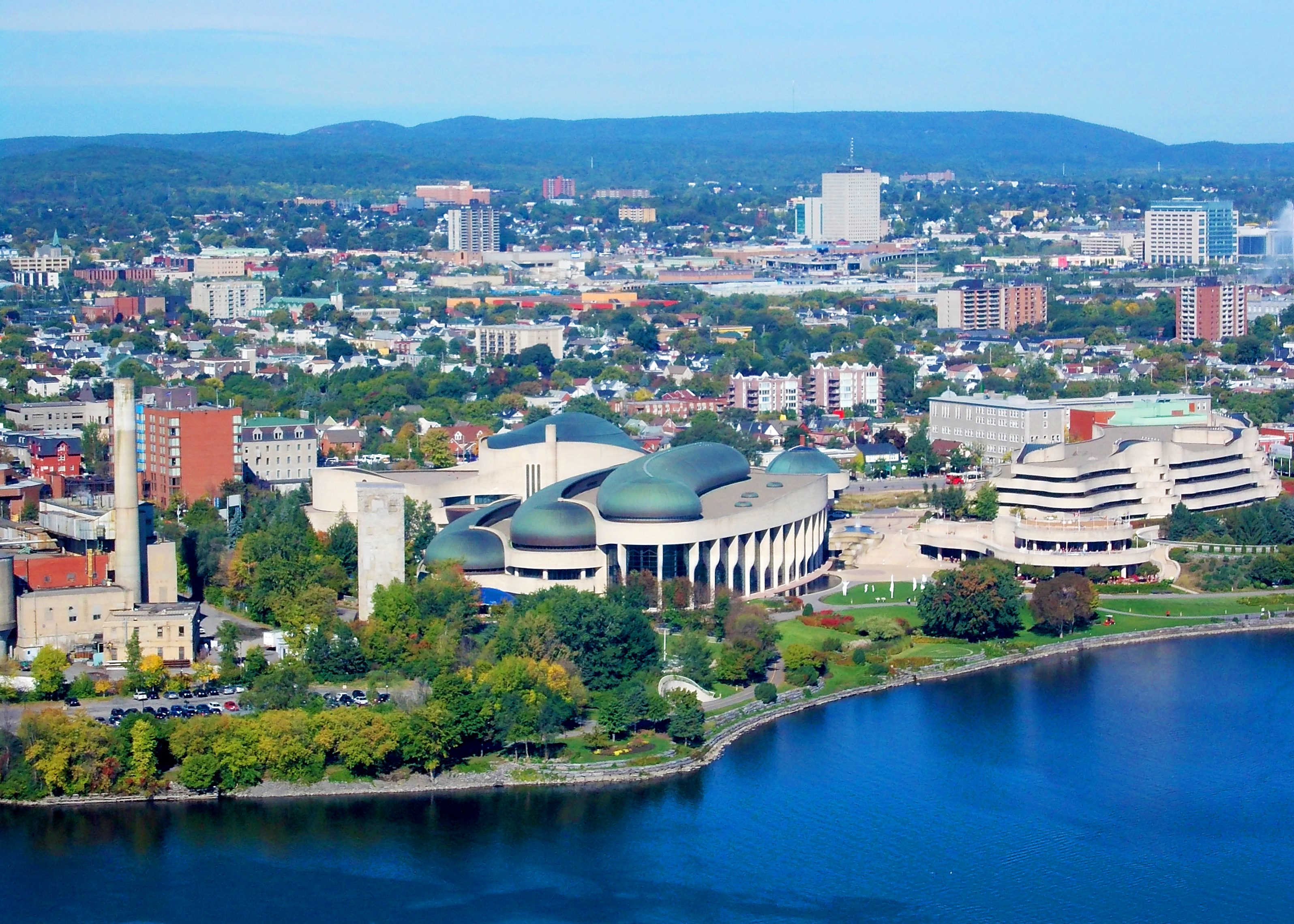 Gatineau (view from the Peace Tower of Parliament Centre Block)